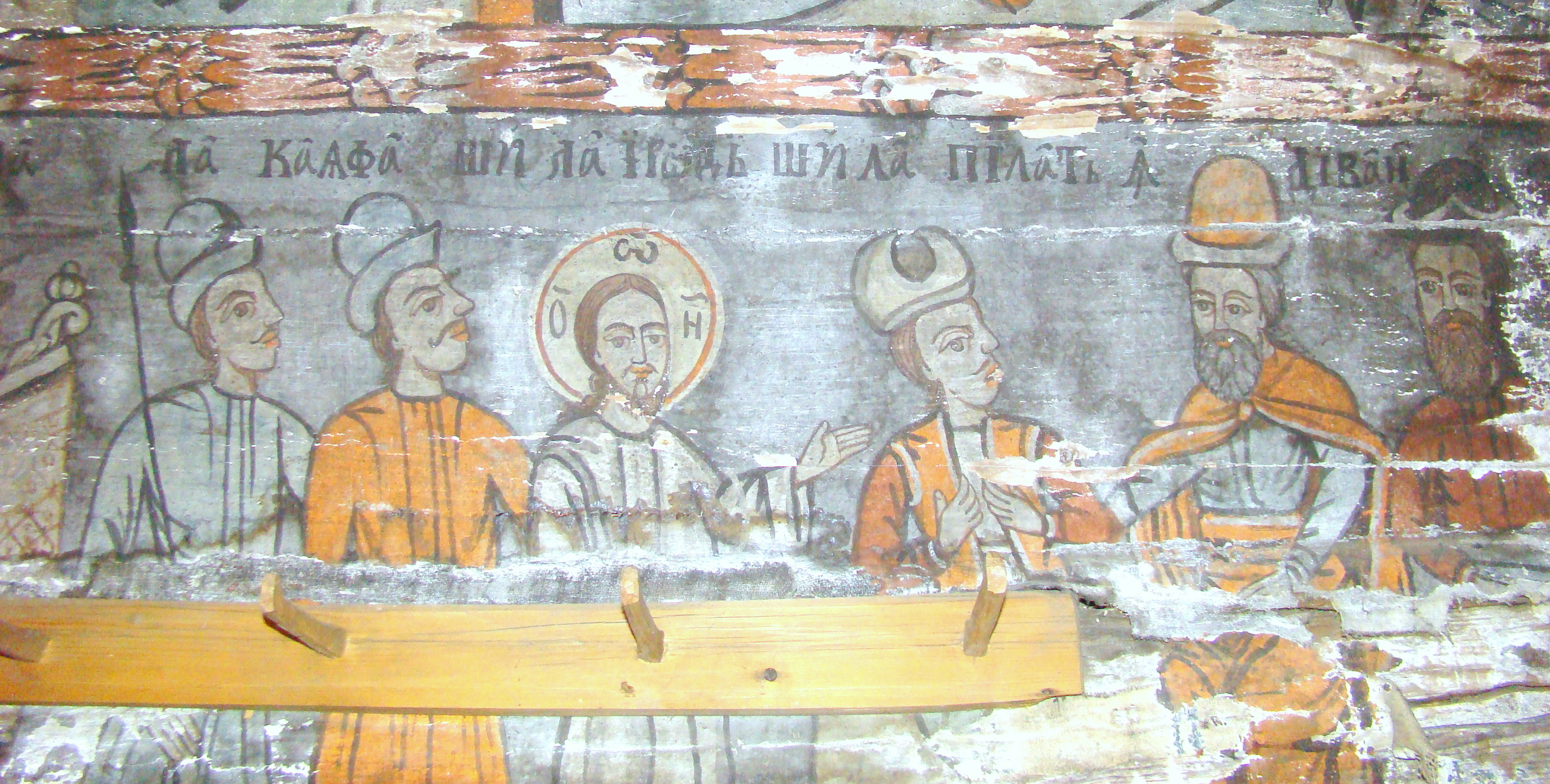 Wooden church in Straja, Cluj county, Romania